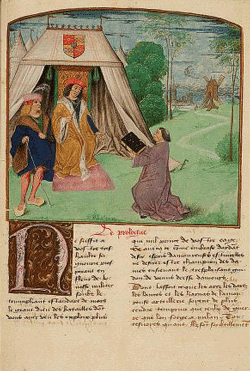 Jean Molinet presents his book to Philip of Cleves. A miniature from the manuscript of "Le roman de la rose moralisé et translaté de rime en prose".